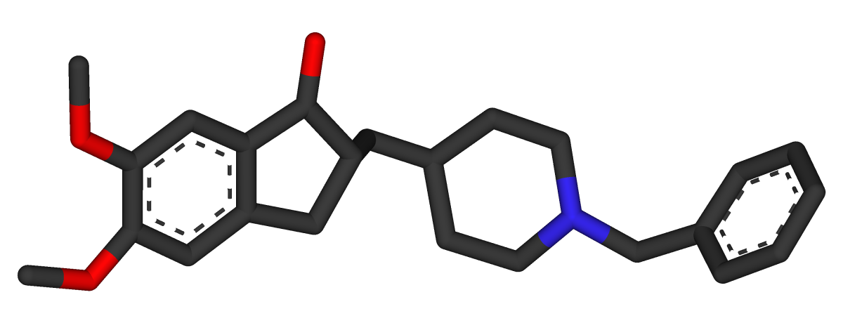 Stick model of donepezil, as bound to acetylcholinesterase. Hydrogen atoms omitted for clarity. Created using PyMOL, Accelrys DS Visualizer Pro 1.7, and GIMP. Optimized with OptiPNG.